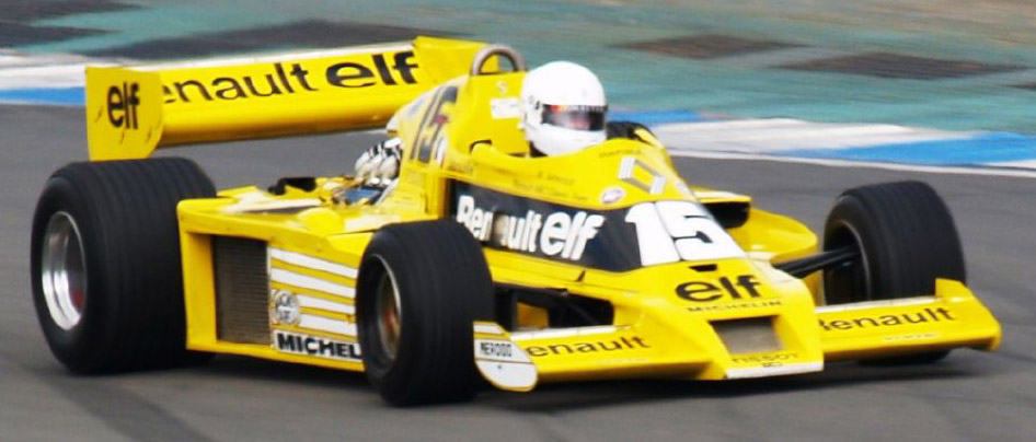 A Renault RS01 Formula One car, the first turbocharged F1 car,, being driven by Rene Arnoux at the World Series by Renault event at Donington Park, September 2007.